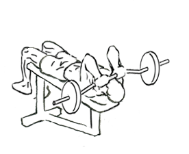 an exercise of triceps